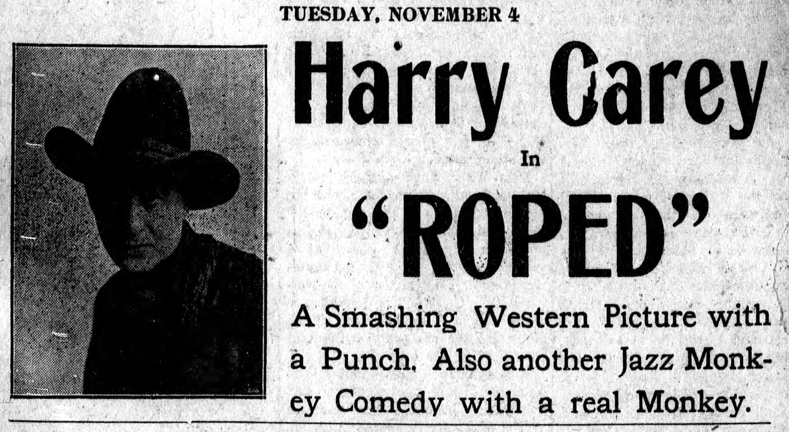 Roped was a 1919 American Western/comedy film directed by John Ford and featuring Harry Carey.